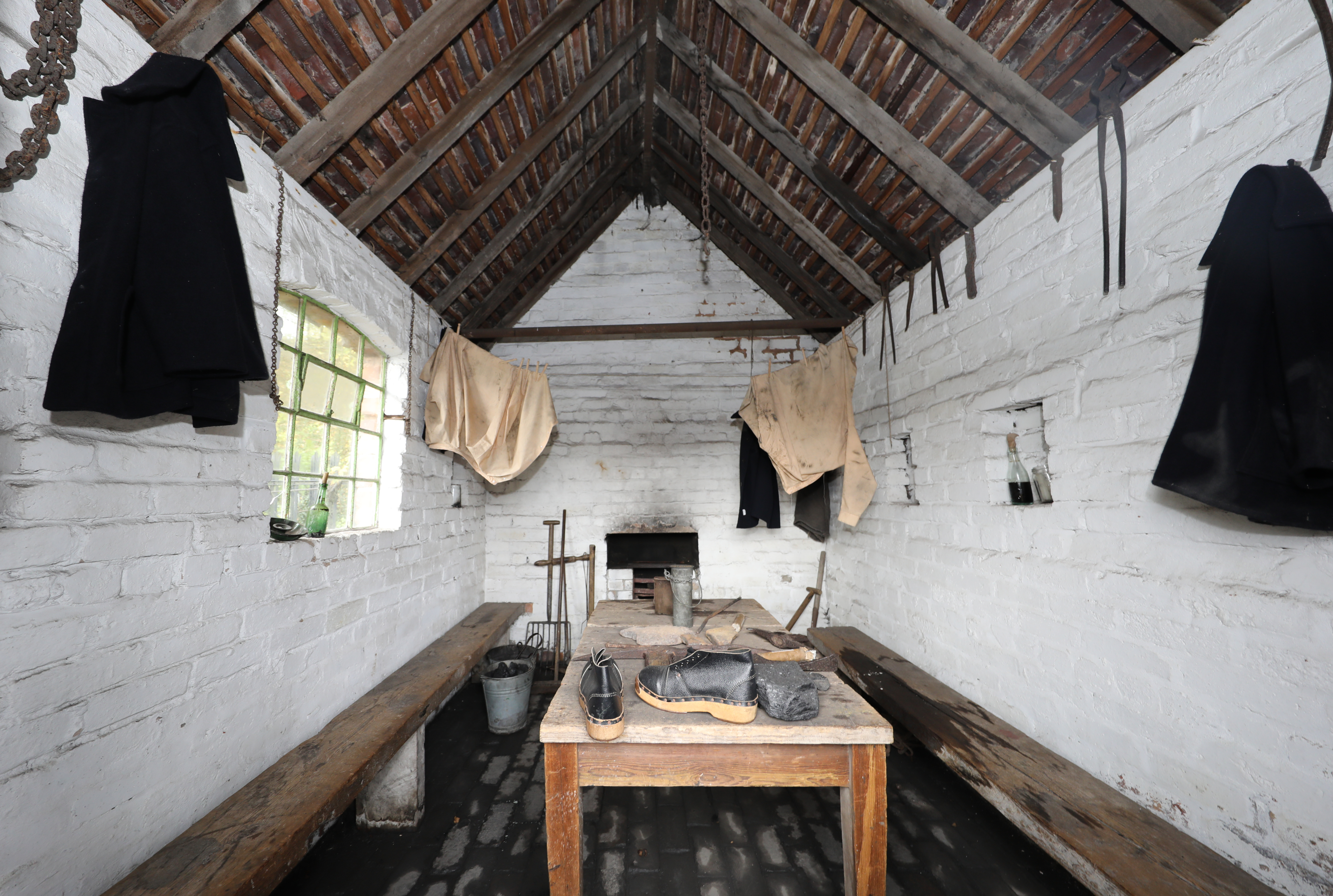 Photo of the interior of the the hovel at the black country living museum's Racecourse Colliery